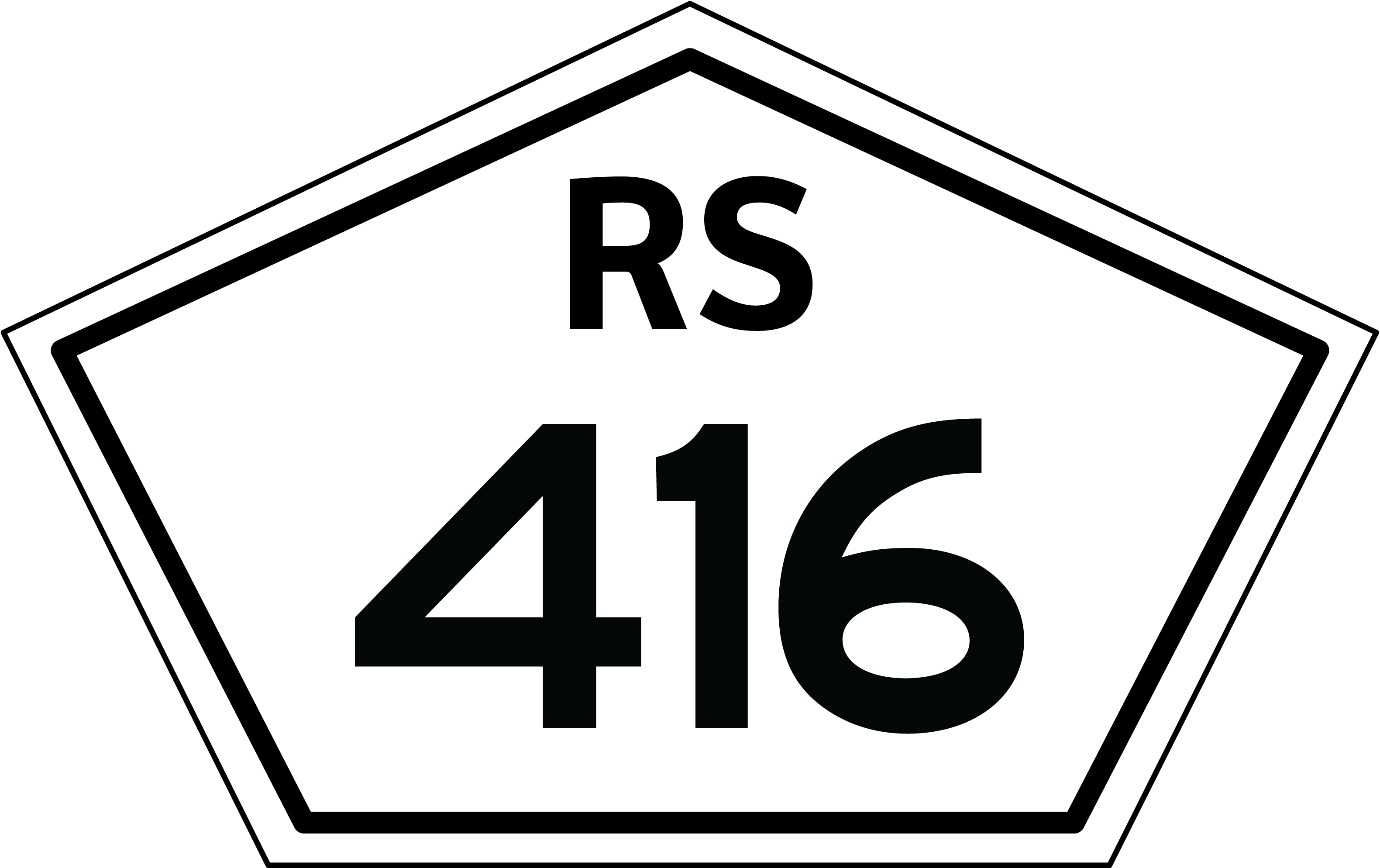 RS-416 State road in Rio Grande do Sul, Brazil. Rua estadual no Rio Grande do Sul, Brasil.